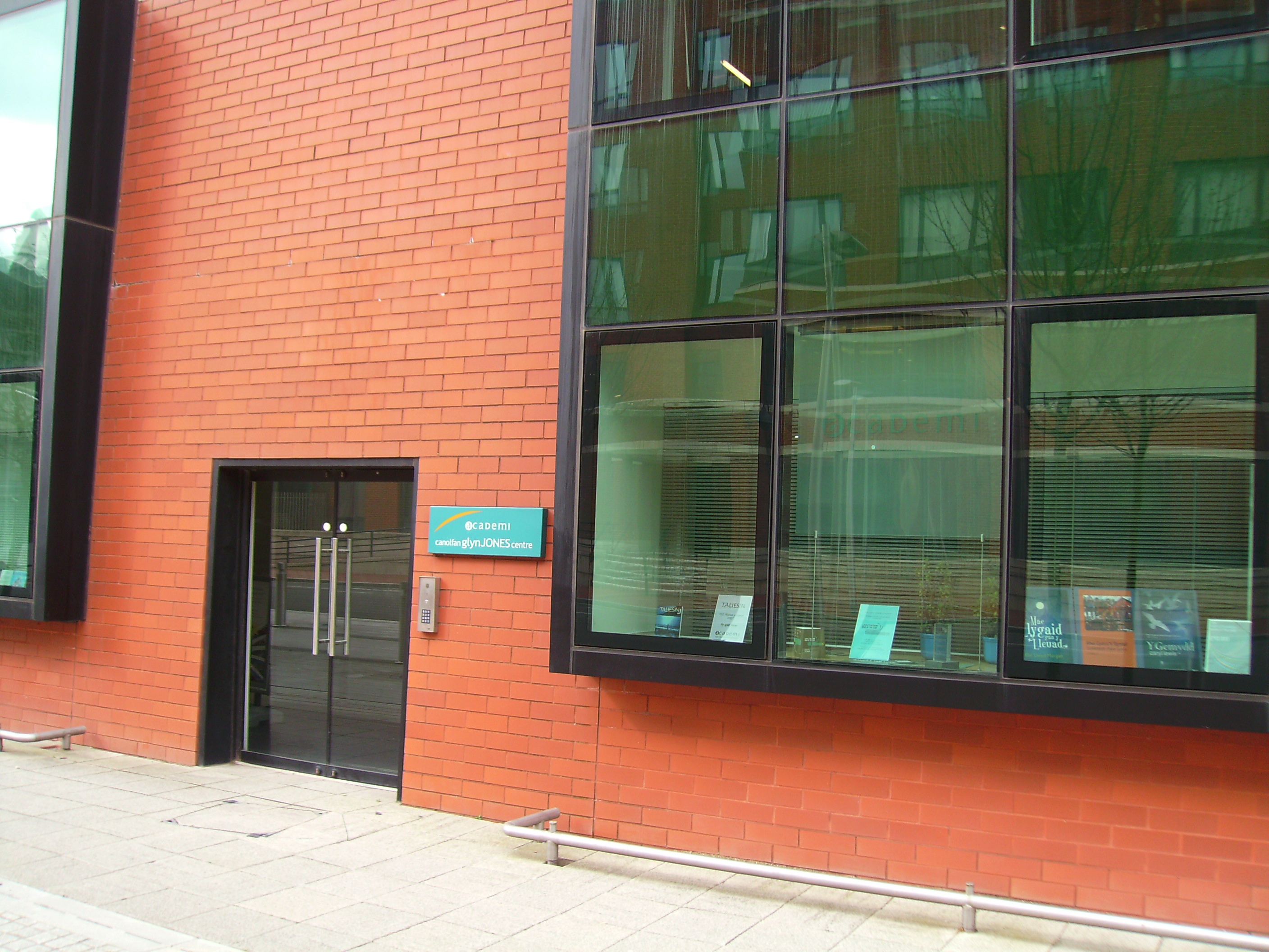 Entrance to the Academi, Wales Millennium Centre, Cardiff, Wales